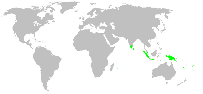 Cryptothelidae habitat distribution, drawn after Platnick: World Spider Catalog 7.0. This is not at all a precise rendering of the distribution! If you have better information, please replace this map, or send me the info, and i will redraw it.